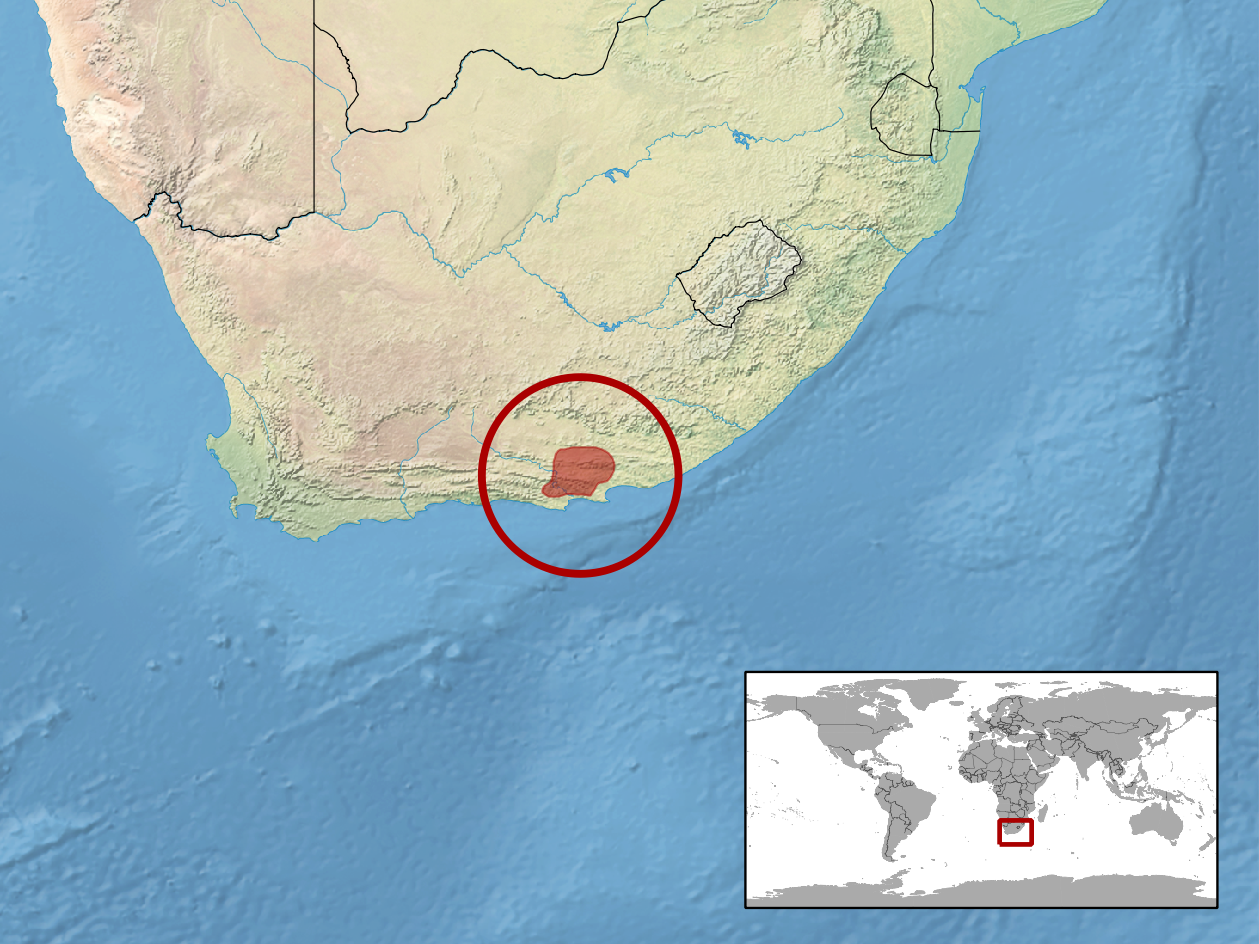 geographic distribution of Goggia essexi (Native: South Africa (Eastern Cape Province))